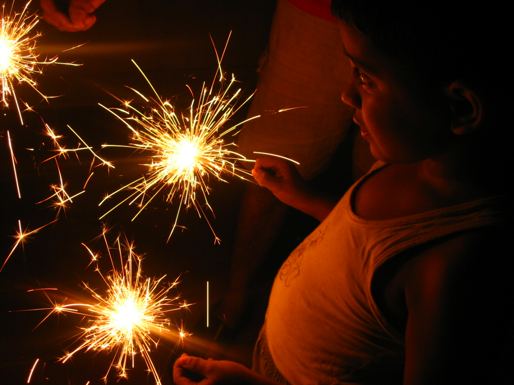 Boy playing with sparklers during Diwali celebrations.